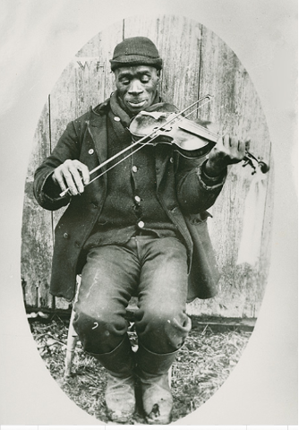 Joe Izzard playing the fiddle (copy for J. Bowden) Nova Scotia Archives